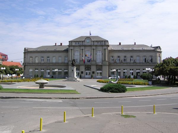 Bijeljina Town Hall